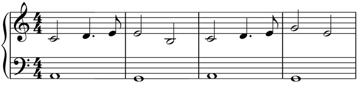 The theme of Thorin Oakenshield, based on the Erebor theme but more stepwise like the Shire music - relating the impact Bilbo will have on Thorin's life.